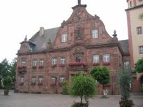 city hall of Ettlingen / Rathaus Ettlingen